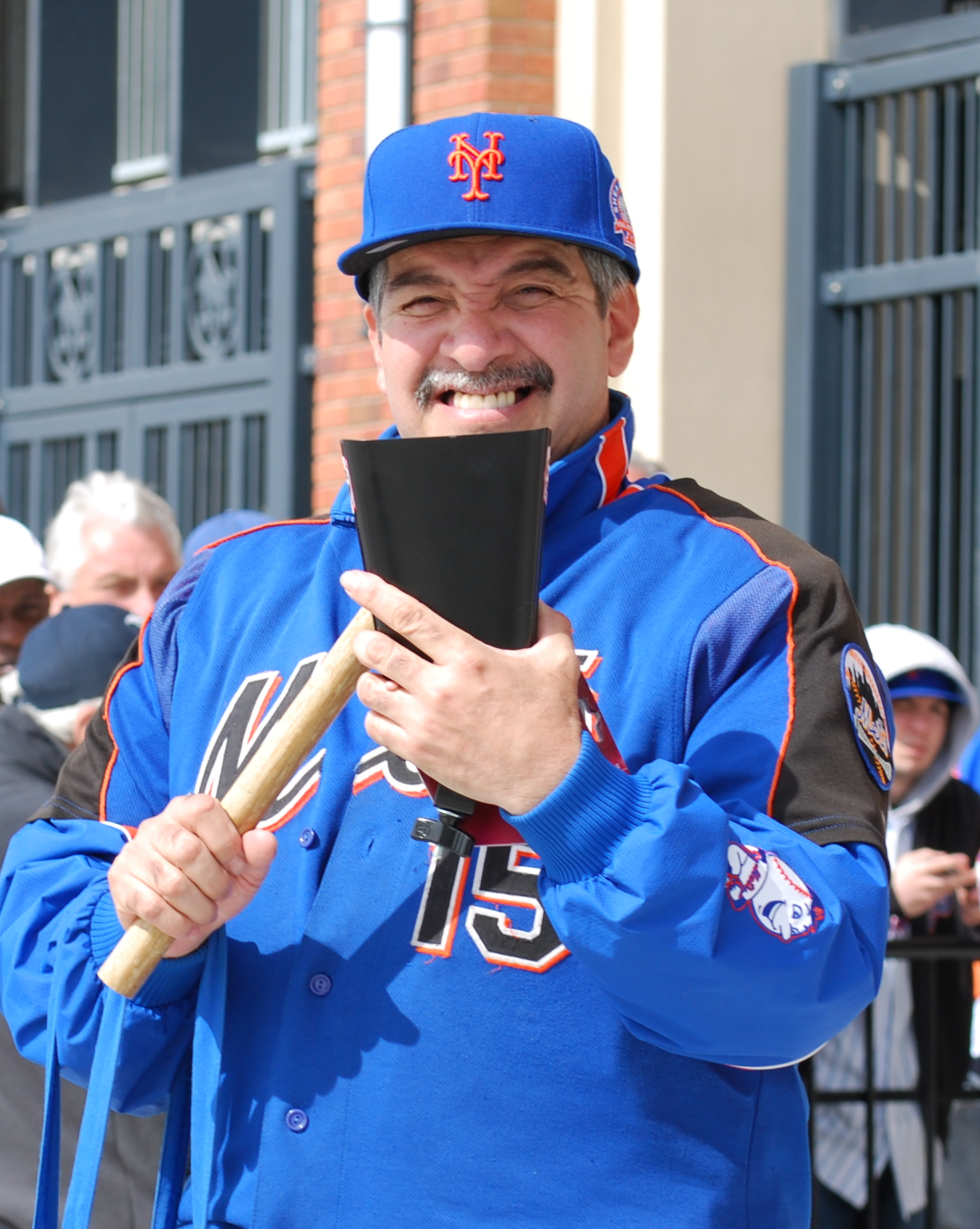 Cowbell Man on April 13, 2009.